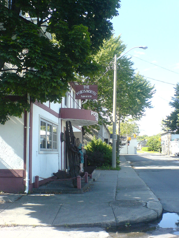 Portsmouth Tavern on Younge Street in Kingston, Ontario.